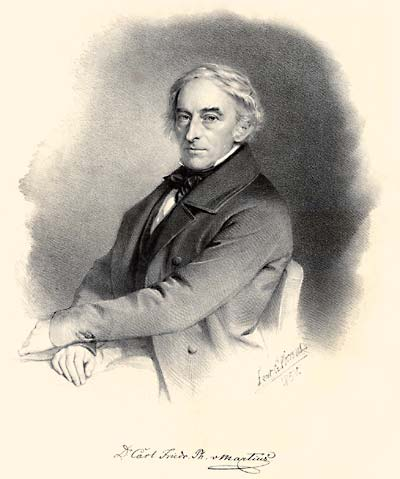 Engraving portraying Carl Friedrich Philipp von Martius (1794-1868), a German explorer of the Amazonas region of Brazil.